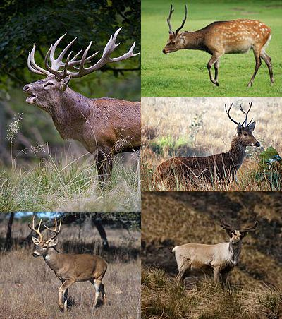 Images of a few members of the family Cervidae (clockwise from top left) - Red deer, fallow deer, barasingha, reindeer and Pampas deer.